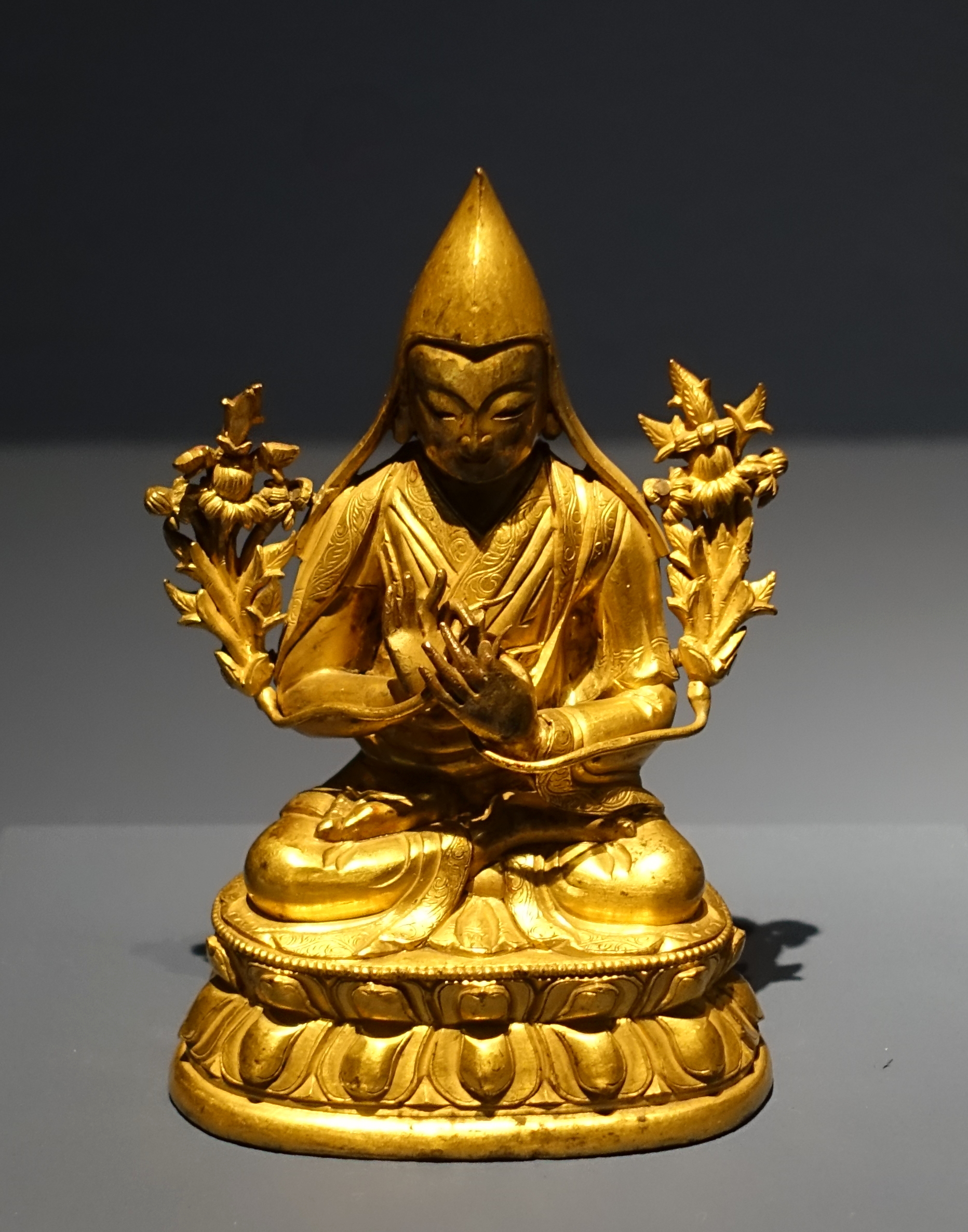 Exhibit in the Linden-Museum - Stuttgart, Germany.